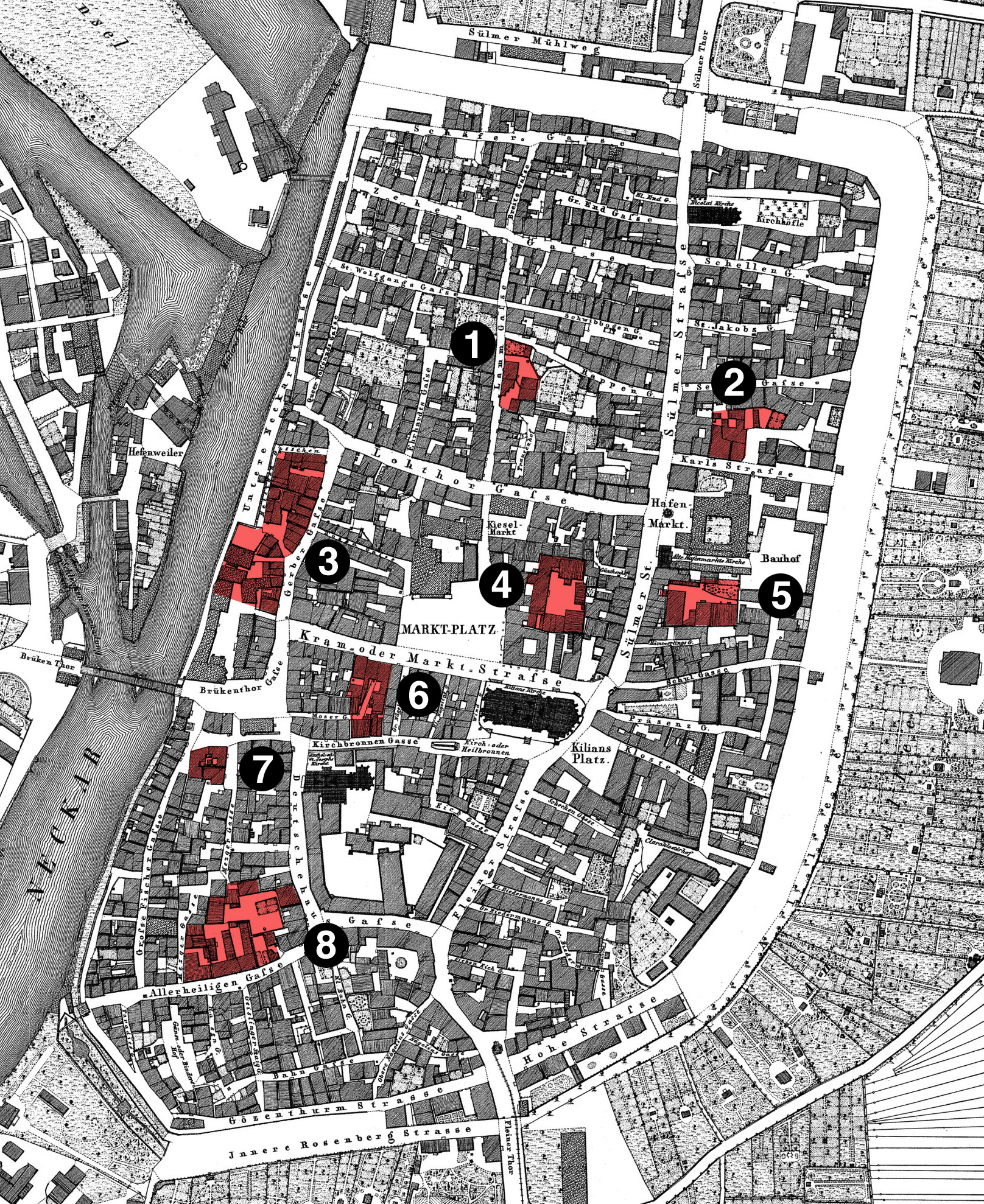 Historic foreign monastery possessions in Heilbronn, marked on a map of Heilbronn from 1834, scale 1:2500